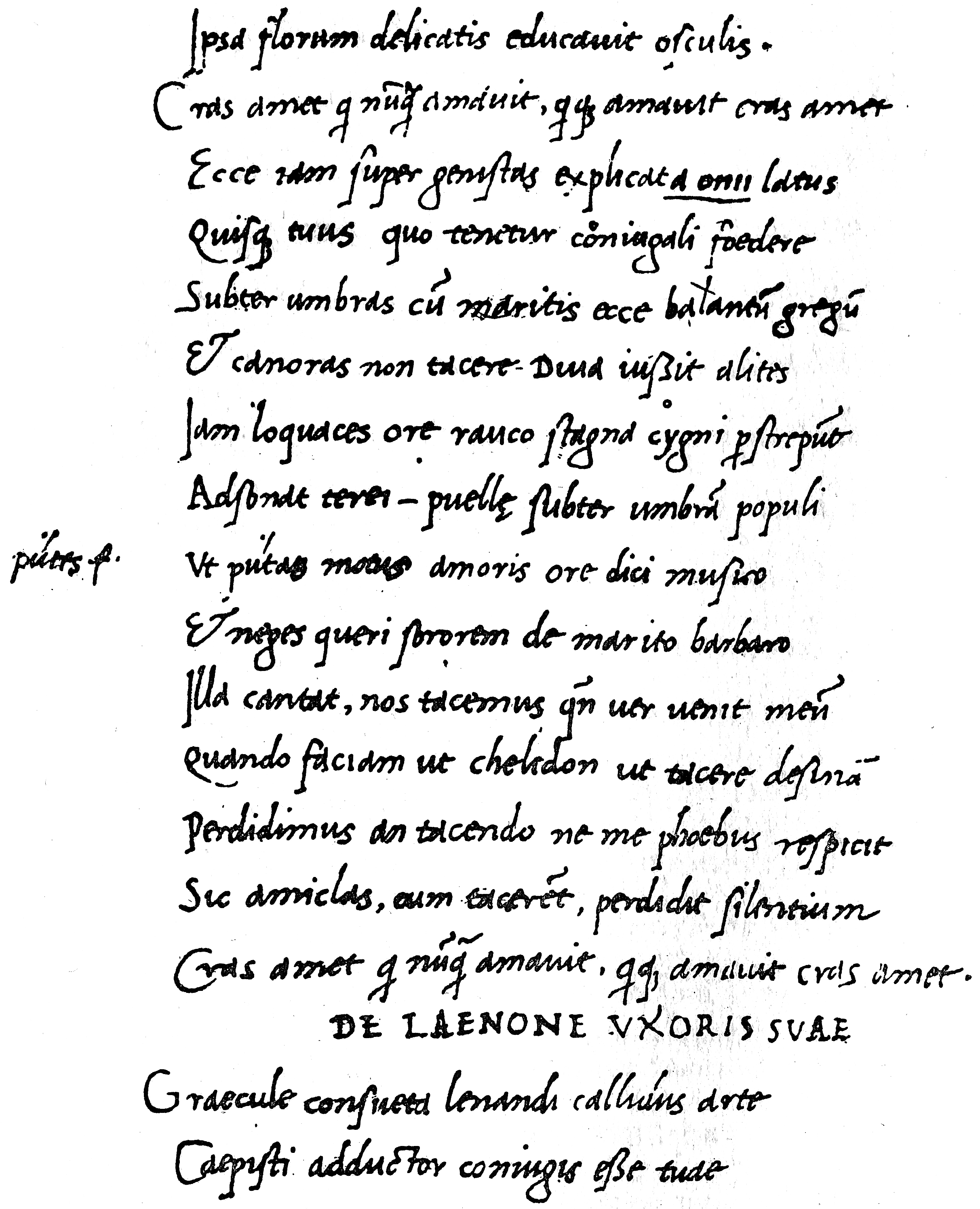 The 6th (and last) text page of the Pervigilium Veneris in codex V, the Codex Sannazarii or Codex Vindobonensis 9401, a Humanistic manuscript written by the poet Jacopo Sannazaro.